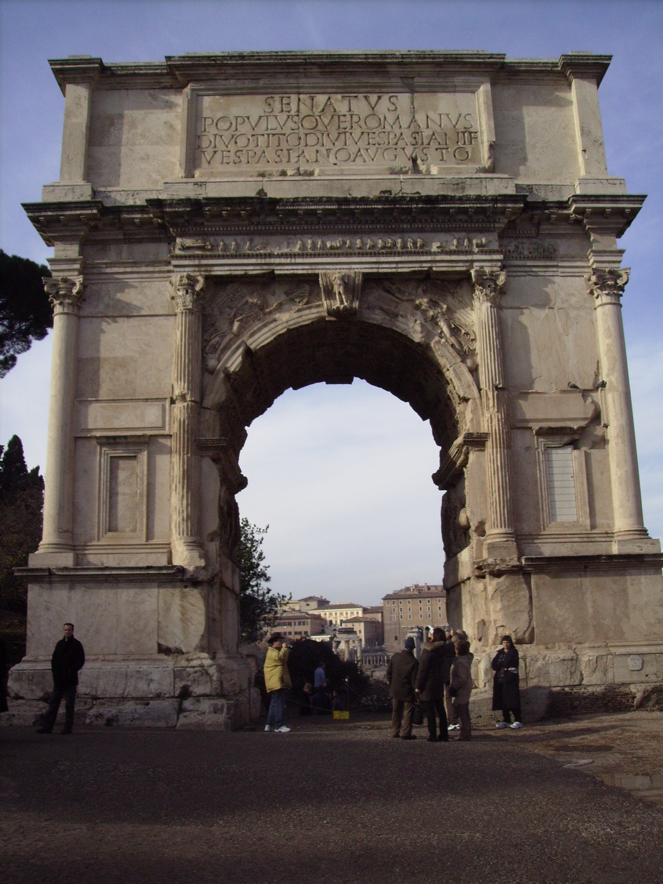 titus gate from the front